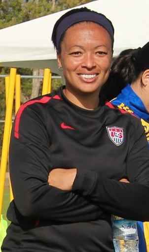 Angie Hucles lines up with program participants during a soccer clinic in Morocco in May 2012